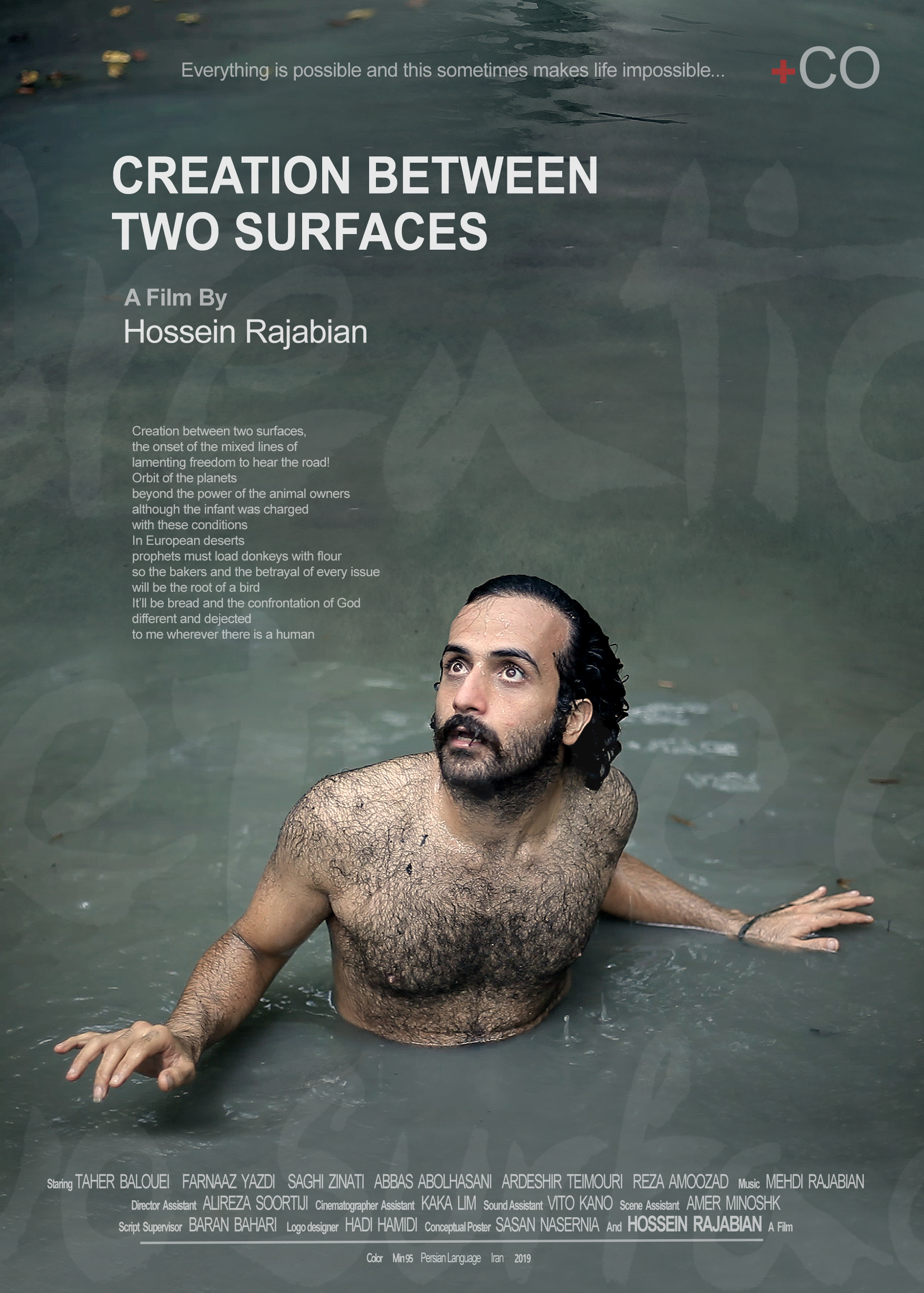 CREATION BETWEEN TWO SURFACES - A film by Hossein Rajabian . آفرینش بین دو سطح فیلمی از حسین رجبیان